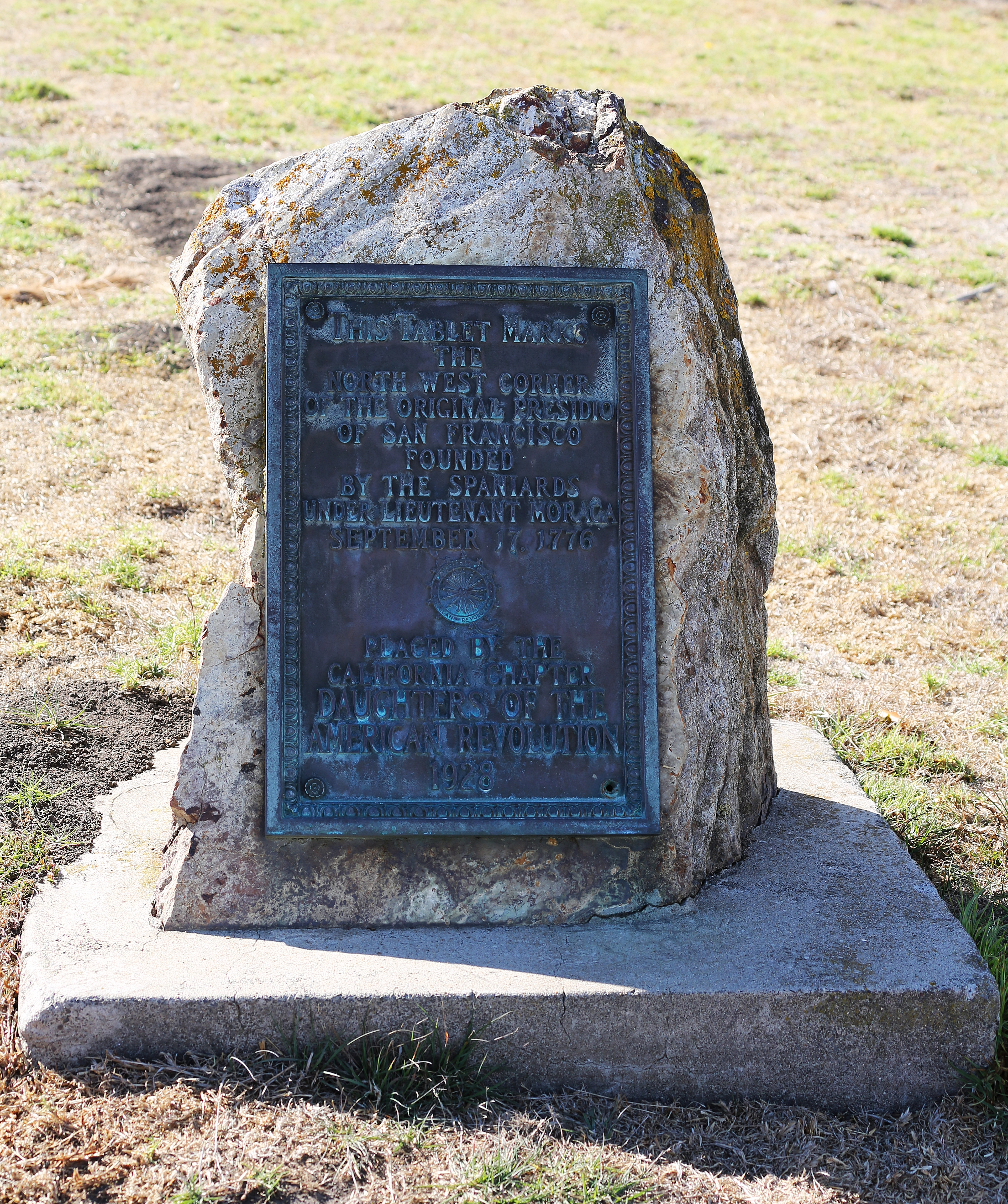 Text on the tablet says: "This tablet marks the north west corner of the original Presidio of San Francisco founded by the Spaniards under Lieutenant Moraga September 17, 1776 (symbol) Placed by the California Chapter Daughters of the American Revolution 1928"